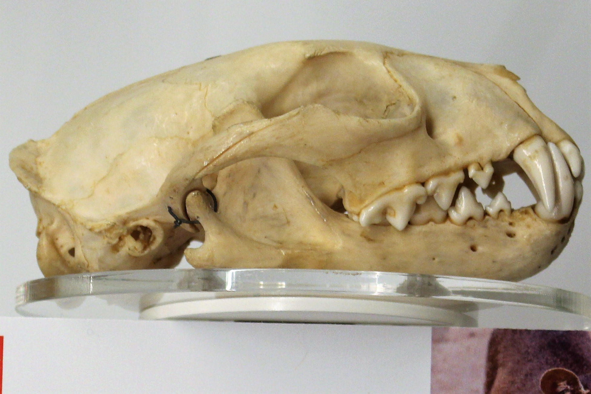 Fossa (Cryptoprocta ferox) skull at the Cambridge University Museum of Zoology, England.